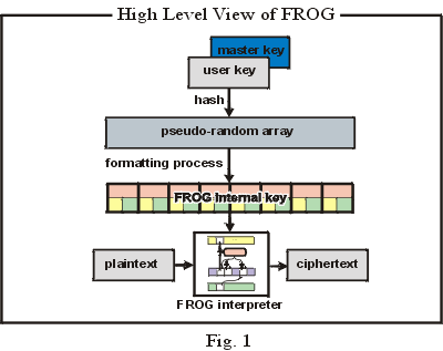 Upload from [1] , in Public domain. High level block graph of the cipher FROG